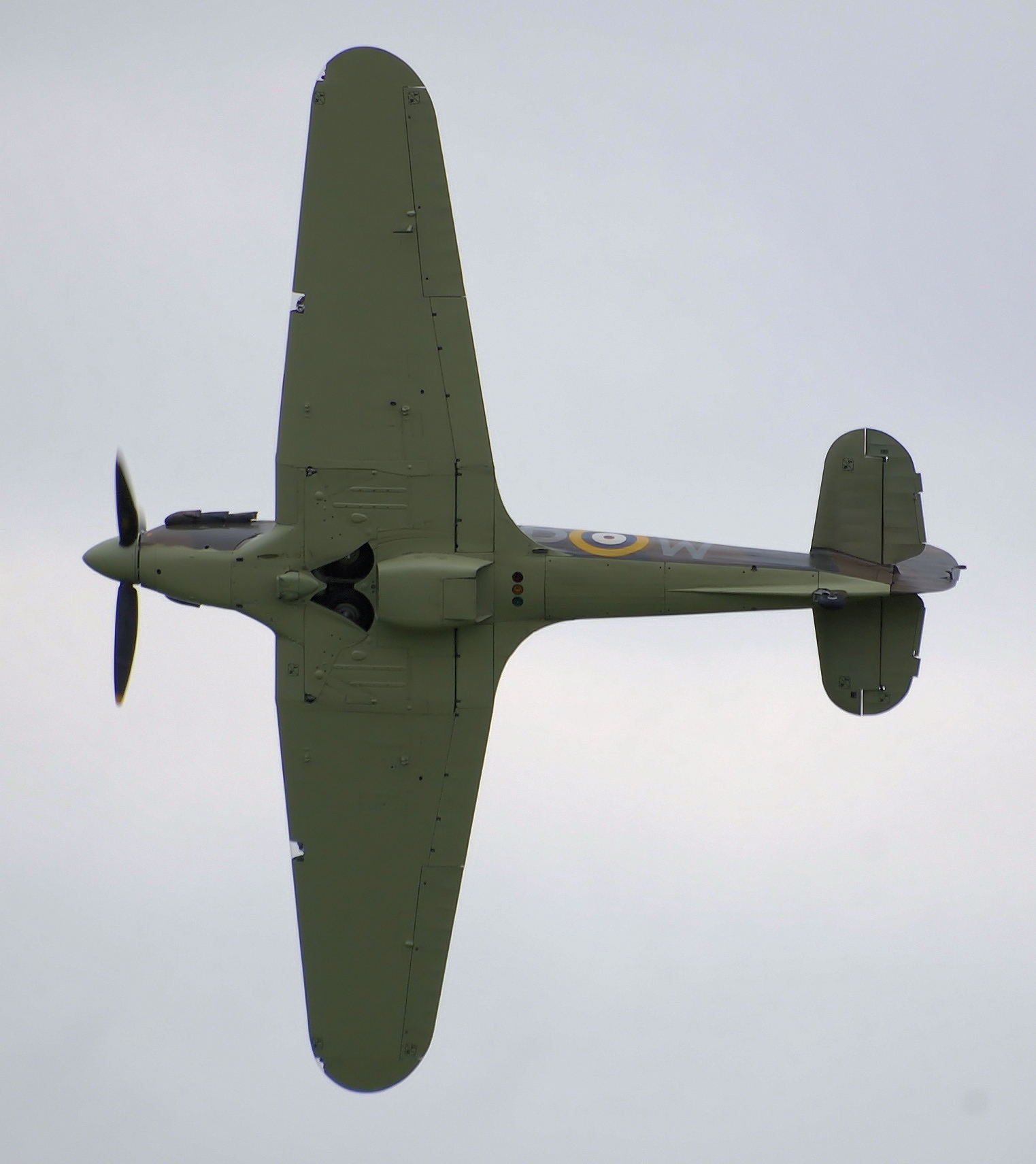 Hurricane Mk1 (RAF serial R4118, squadron code UP-W, UK civil registration G-HUPW) at Kemble Open Day, Kemble Airport, Gloucestershire, England. The aircraft was delivered new to 605 (County of Warwick) Squadron in August 1940. It flew 49 combat sorties from Croydon, England, destroying 3 enemy aircraft and damaging 2 others. Still painted in its original markings, R4118 is the only Hurricane from the Battle of Britain still flying.